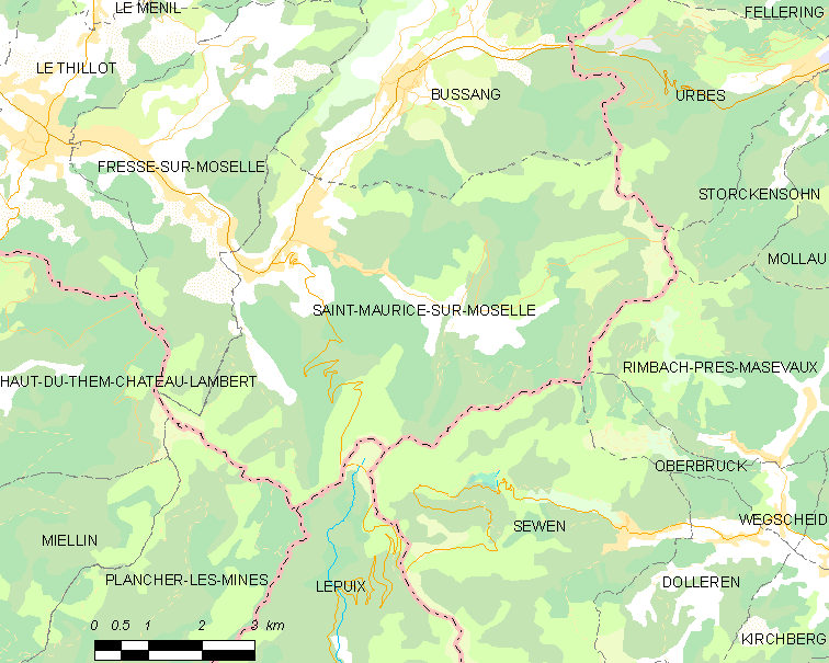 Map of French municipality Saint-Maurice-sur-Moselle